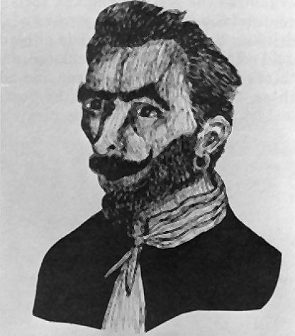 Drawing of the mythical pirate Jose Gaspar from a 1900 brochure